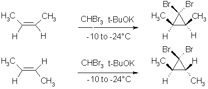 stereospecific carbene addition to an olefin